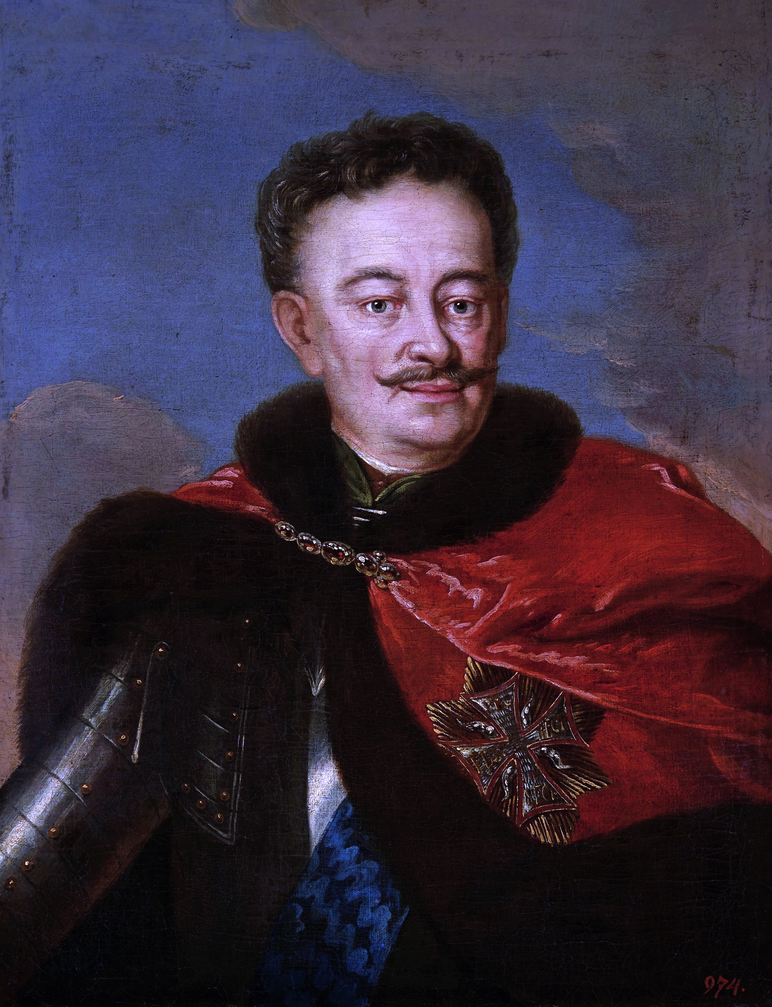 Portrait of Józef Potocki (1673-1751)